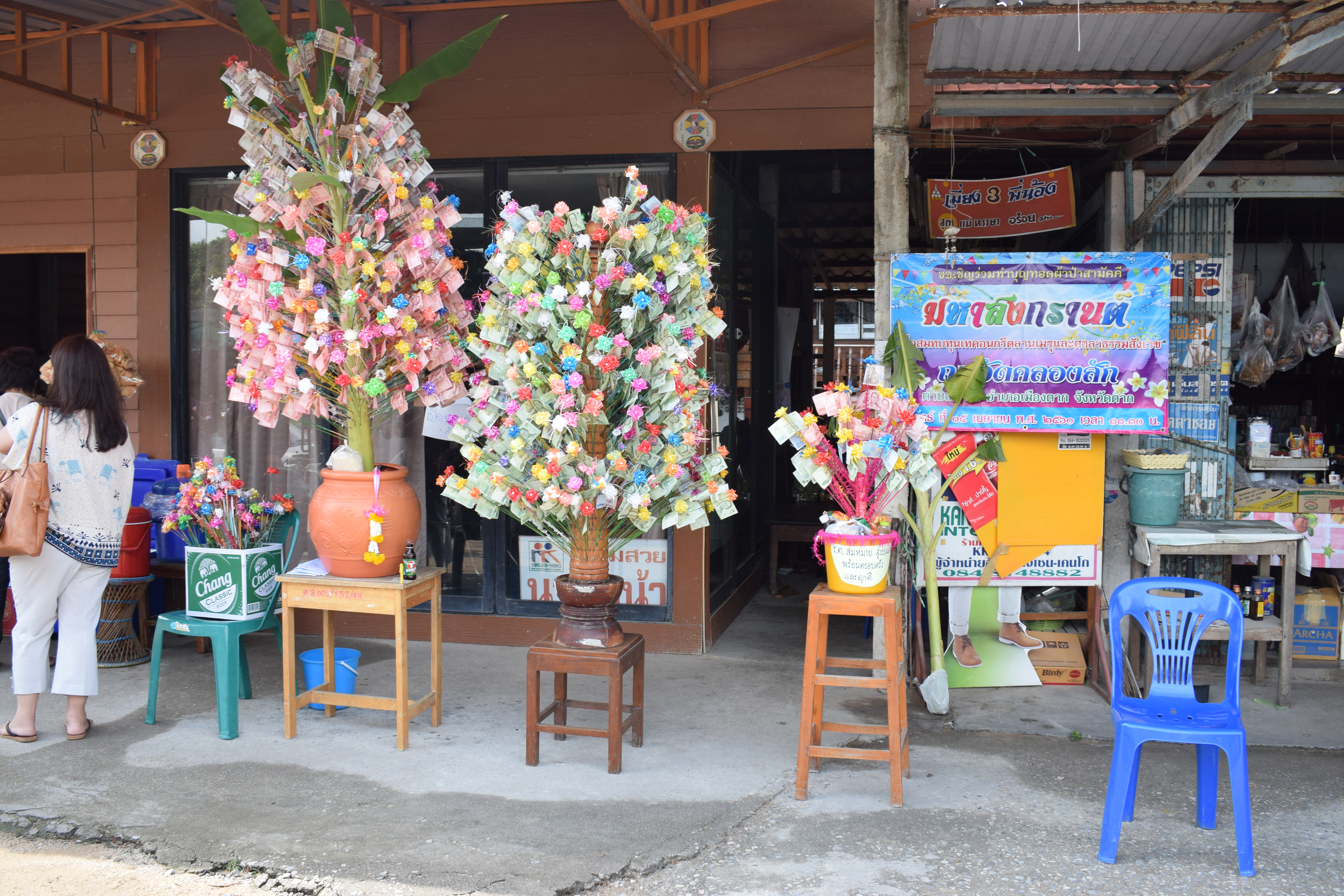 Songkran in Tak City, Tak Province, Thailand. Third day of Songkran. The money "trees" are banana branches. You take stick they provide; which has a slit in it, slide money into it, and attach it to the "tree". The money helps local Buddhist temples and monks.